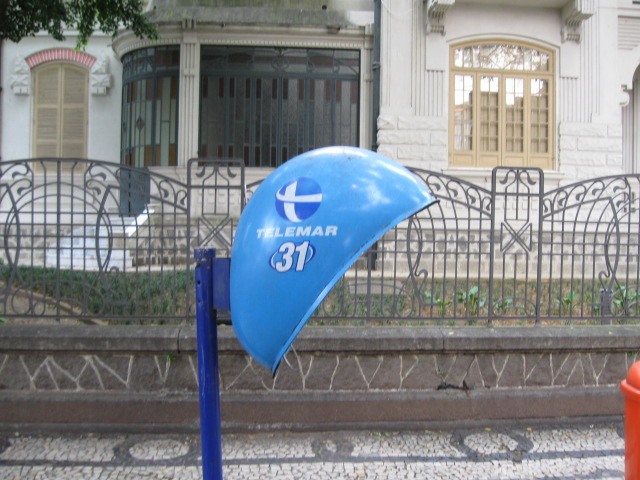 “Orelhão” (telephone booth in Brazil) from Telemar